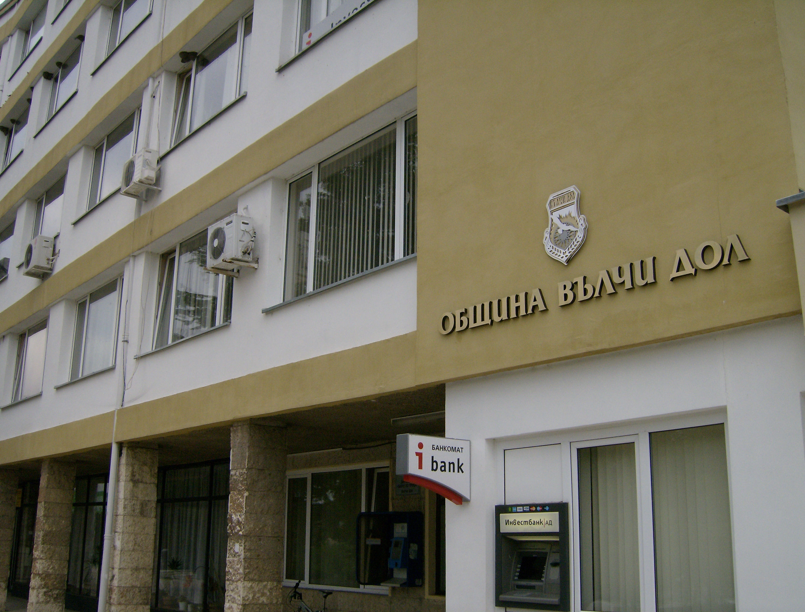 Valchi dol